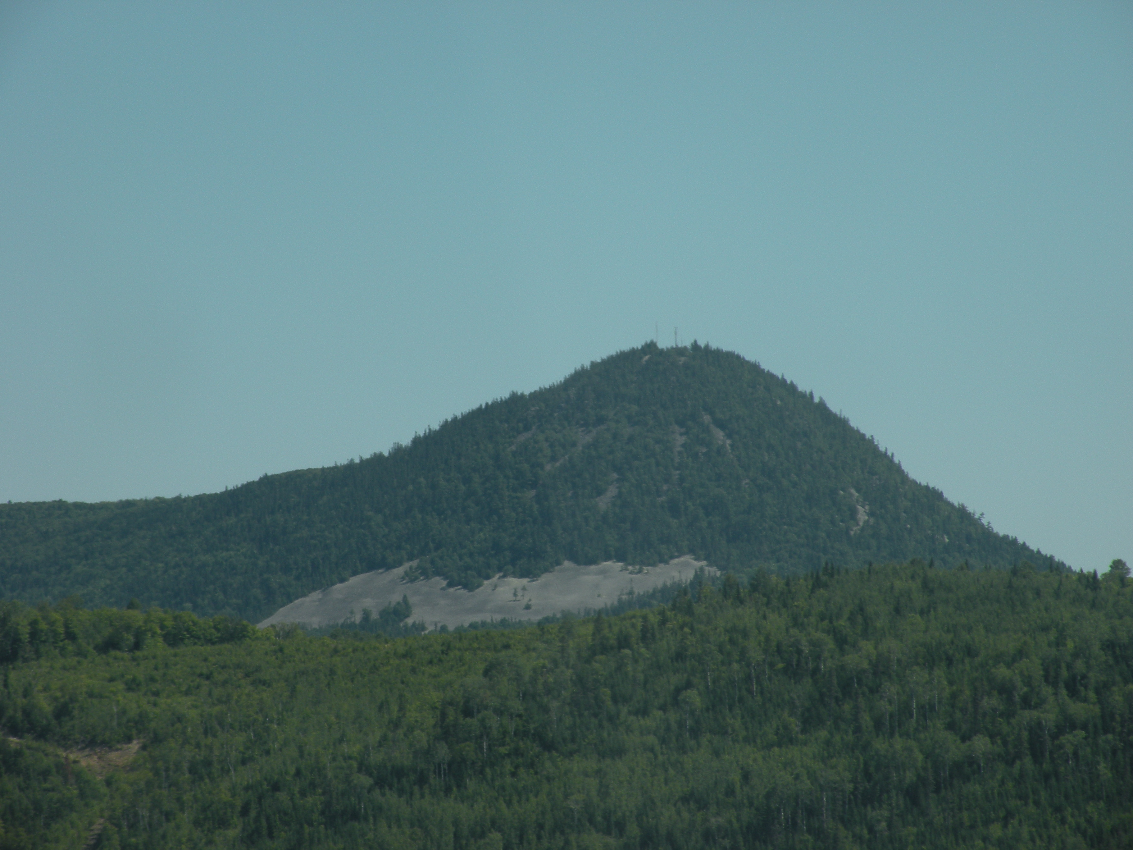 The Squaw Cap mountain, in the hamlet of the same name, in new Brunswick, Canada.